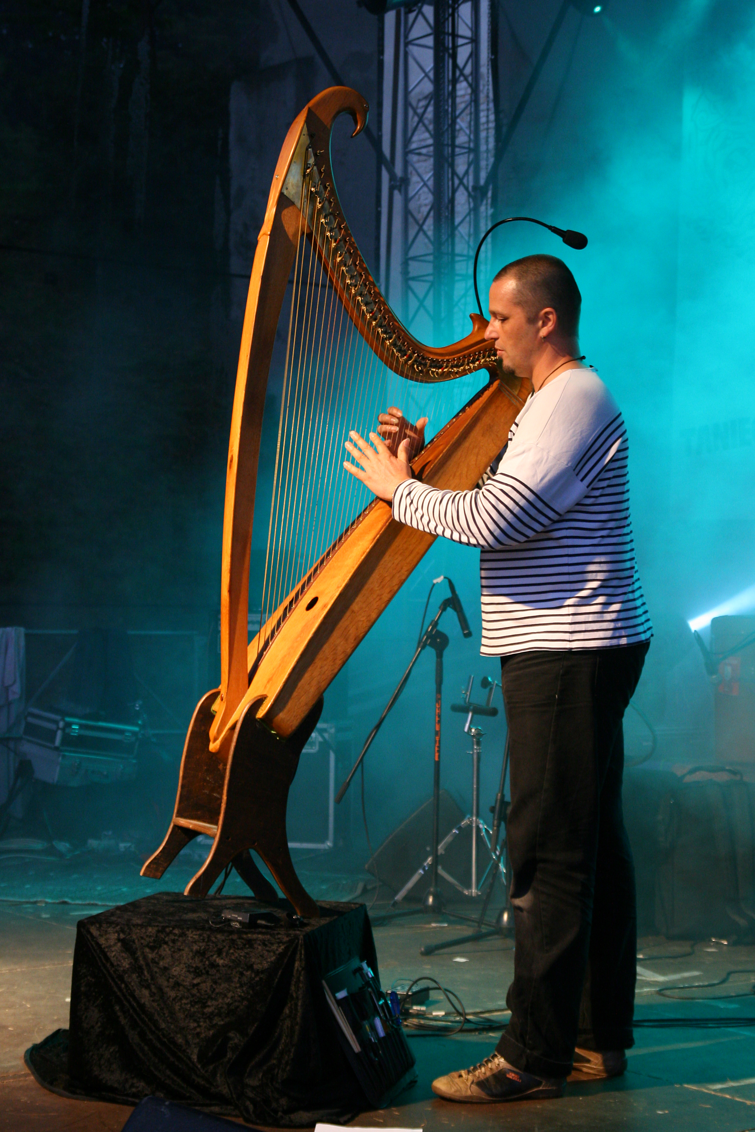 Jochen Vogel during concert.